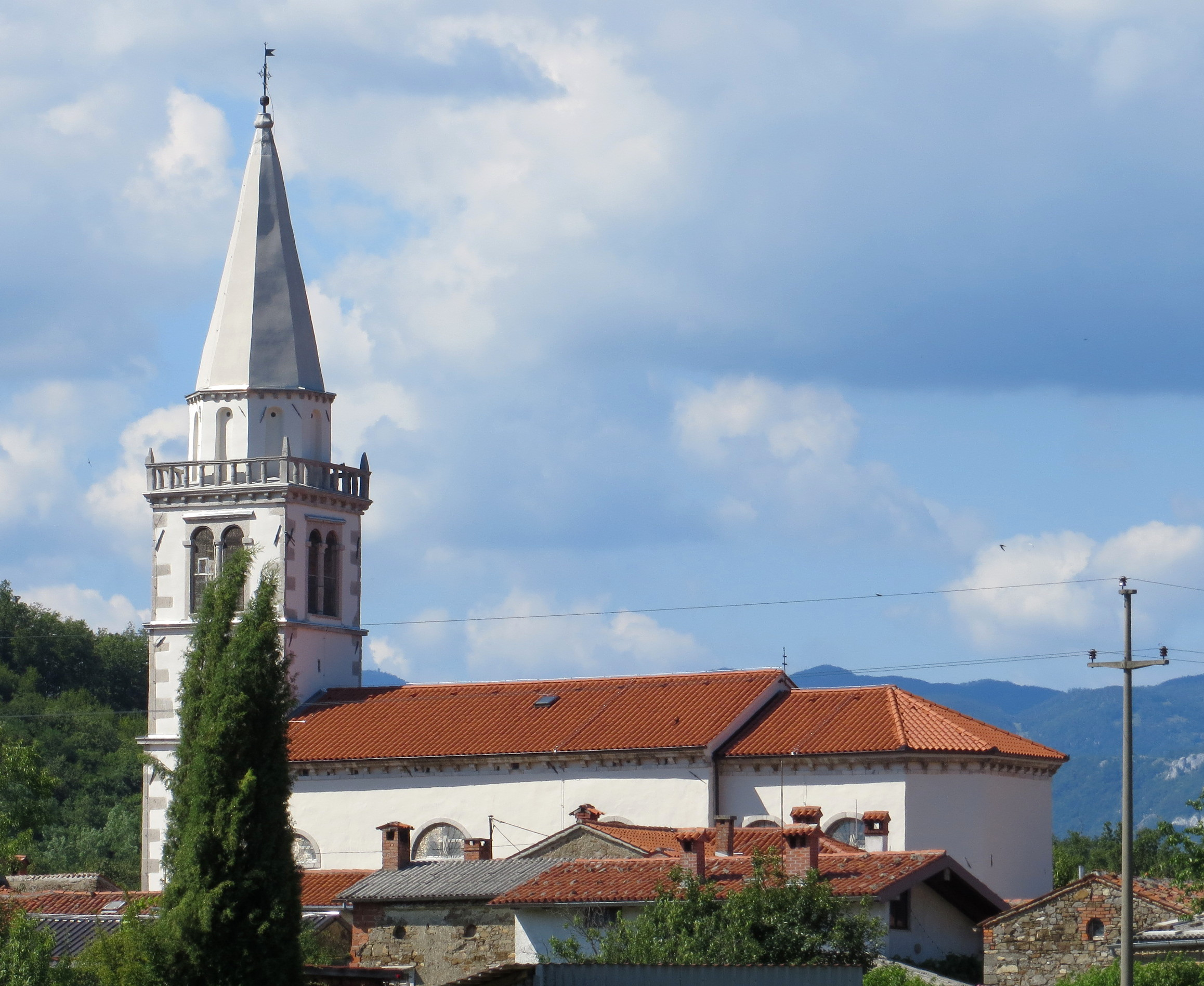 Saint Andrew's Church in Goče, Municipality of Vipava, Slovenia